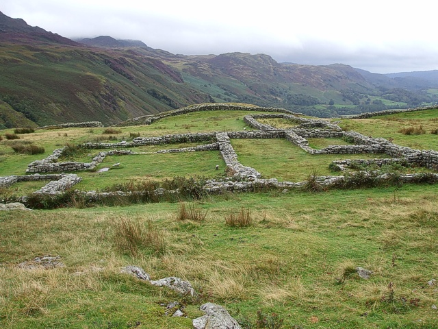 Hardknott Castle Roman Fort - The Principia. The Principia was the most important building in the fort - for information on it see its sign here 546599. The plan of the building can be clearly made out, with the entrance seen here on the left being at the bottom of the diagram on the signboard. This fort was built early in the second century AD during the reign of Emperor Hadrian (famous for another construction a little way north of here). At the time it was known as Mediobogdum and it was built to guard the strategic Hardknott Pass - it housed a cohort of Roman soldiers (500 men) known now to be the "4th Cohort of Dalmatians" - they must have noticed a bit of a difference to their homeland on the Adriatic ! Behind the fort rises Birker Fell.